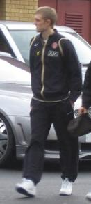 Darren Fletcher at Manchester United's training ground. Cropped from original source.